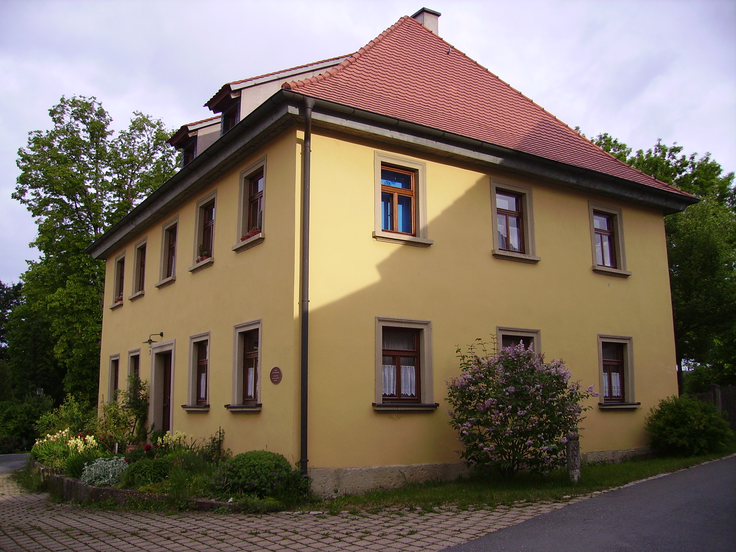 village of Marktgemeinde Heiligenstadt near Bamberg (Upper Franconia) in Germany